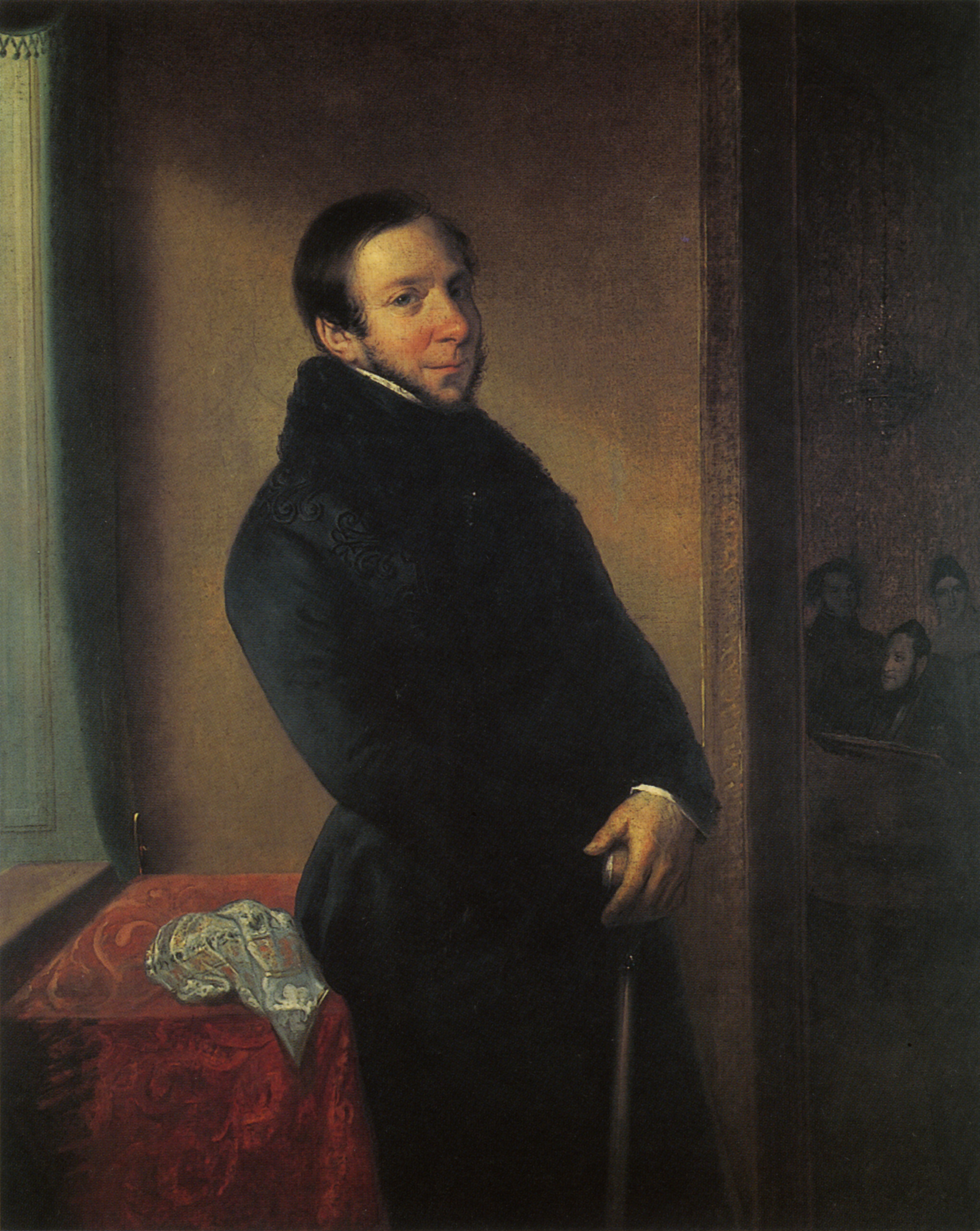 Domenico Barbaja in Naples in the 1820s. Giovanni Battista Rubini, Gioachino Rossini, and Giuditta Pasta are in the background. Credit: Collection Museo Teatrale alla Scala.